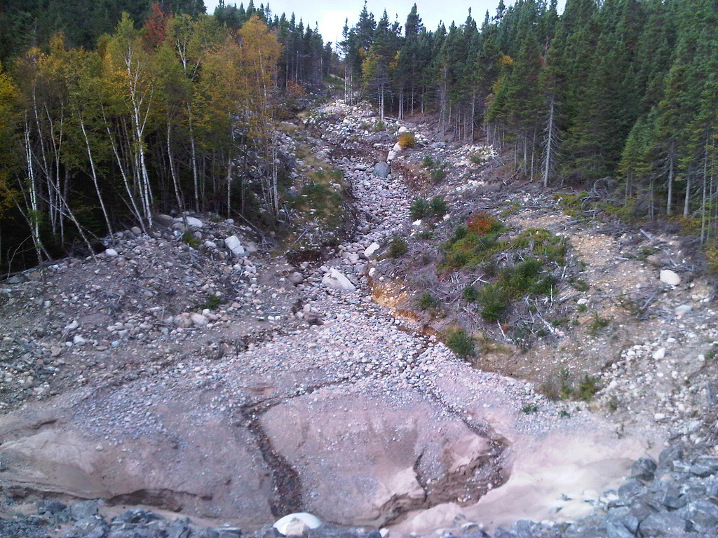 I stopped to snap this picture on the way to St. John's. One small portion of the damage caused in Newfoundland by Hurricane Igor.